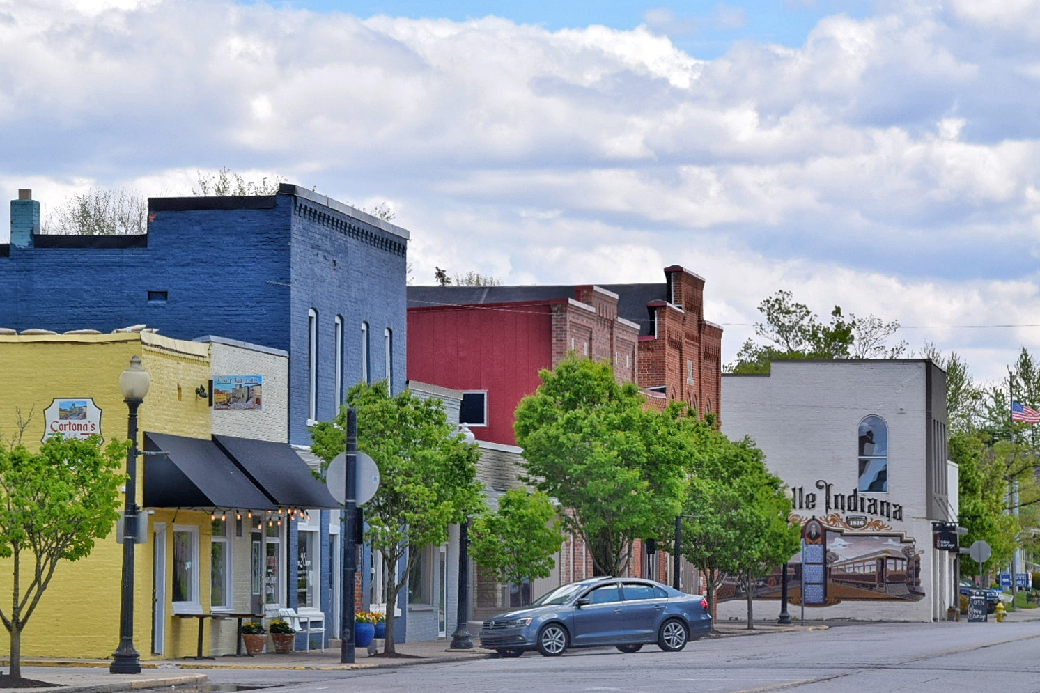 Historic buildings of downtown